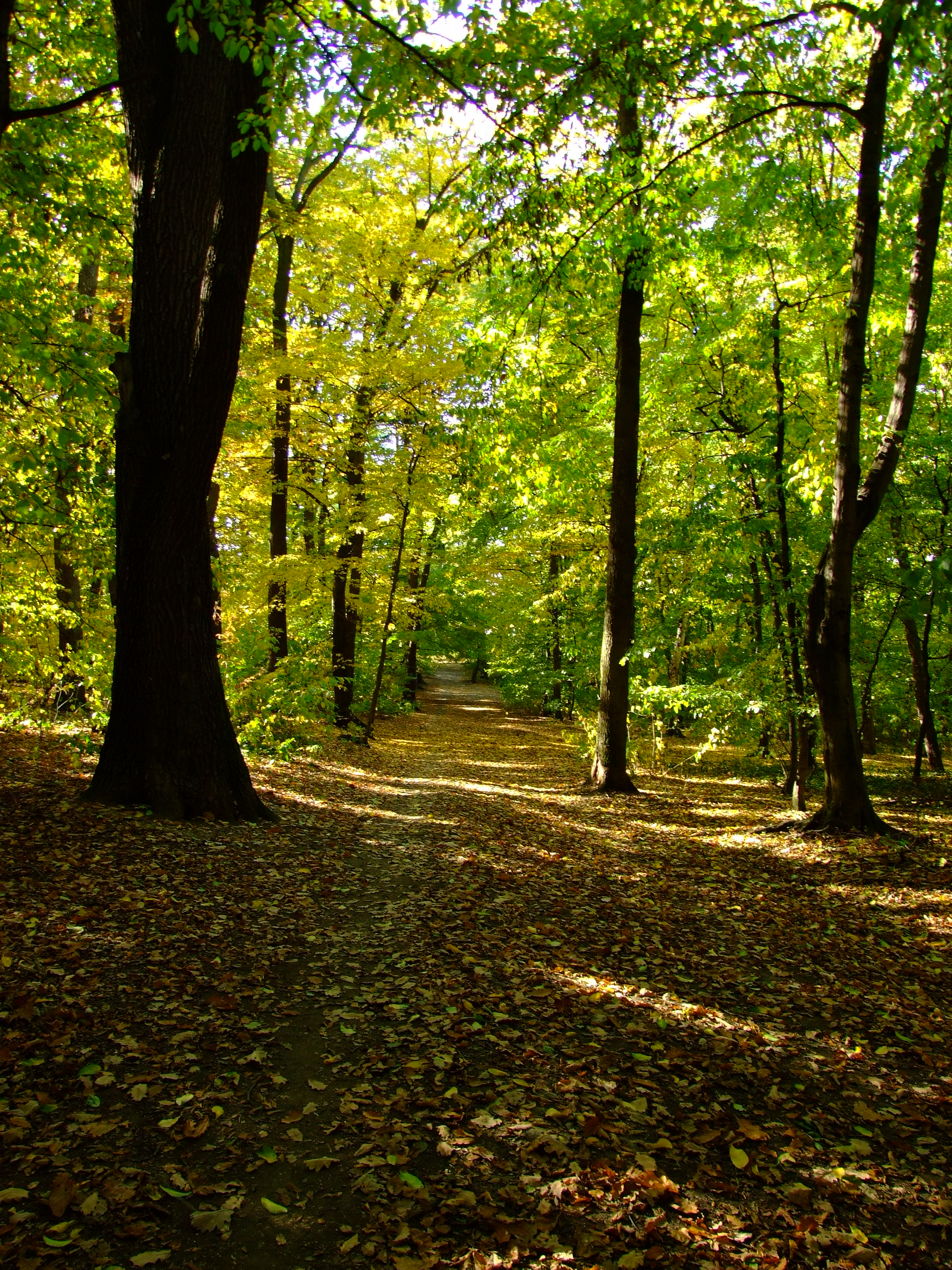 The "Obora Hvězda" park in Prague, CZhelp